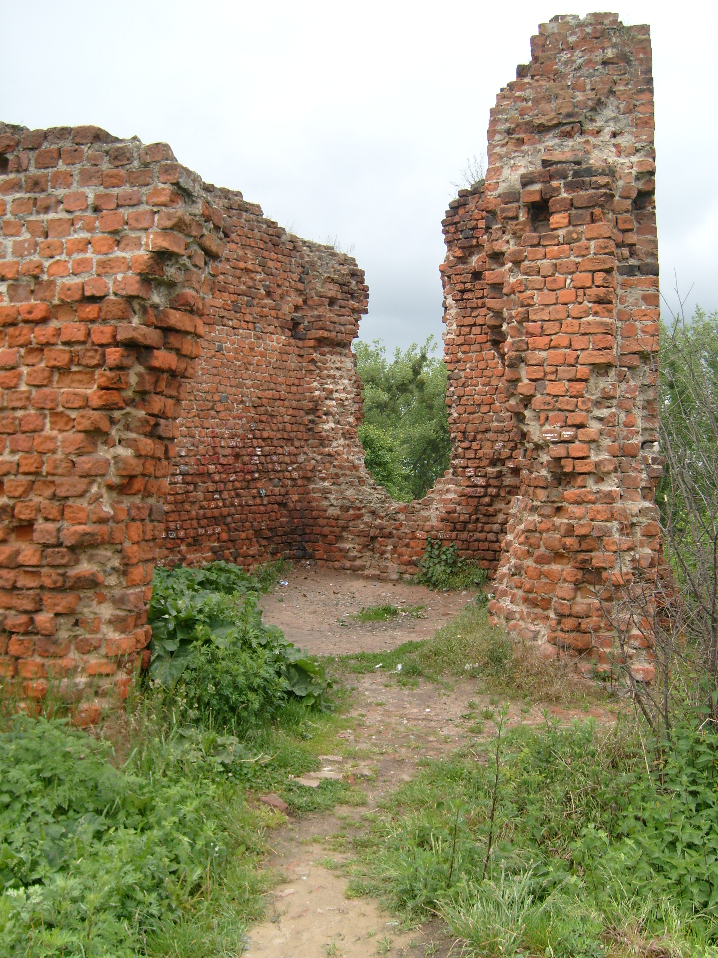 Sochaczew - the ruins of the Masovian Dukes Castle